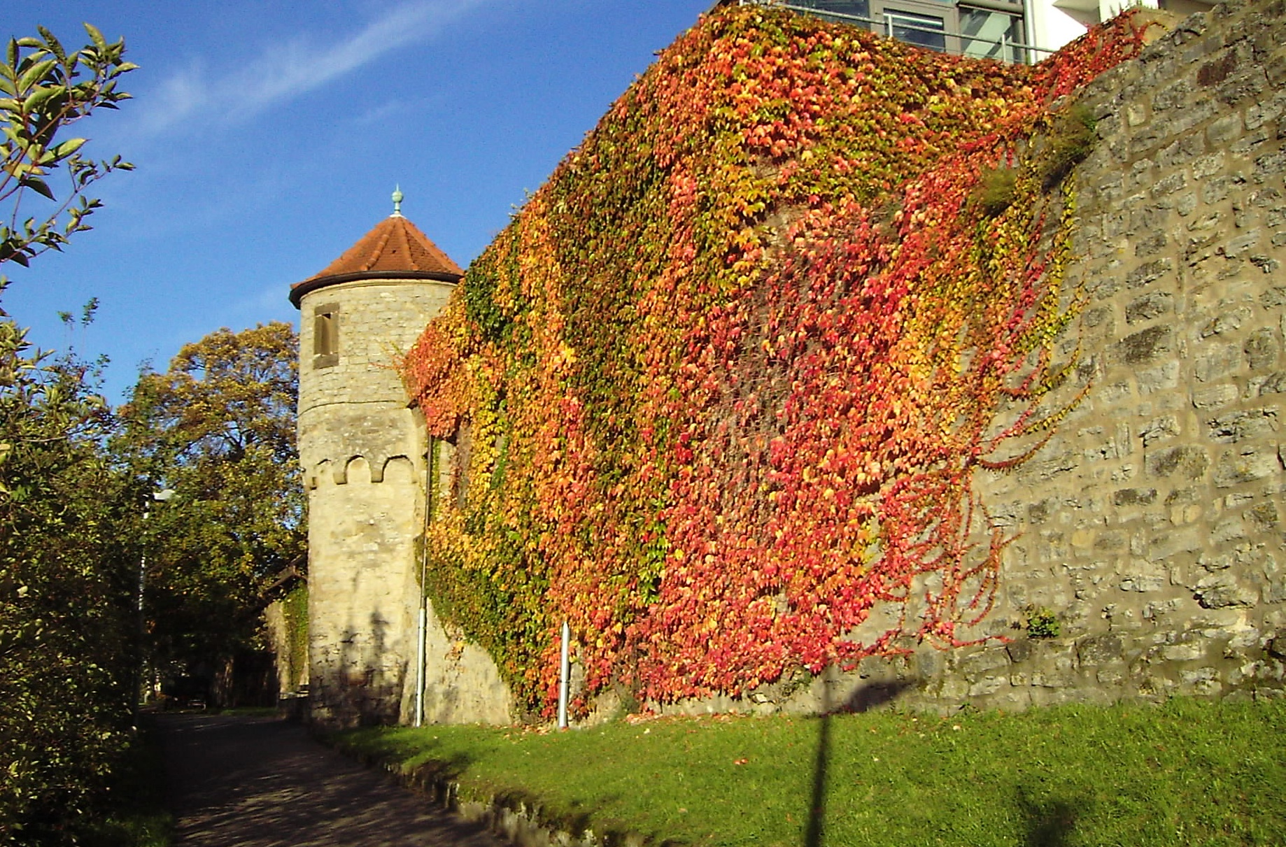 Remaining City Wall in the West of the City Neckarsulm (near Deutschordensschloss)